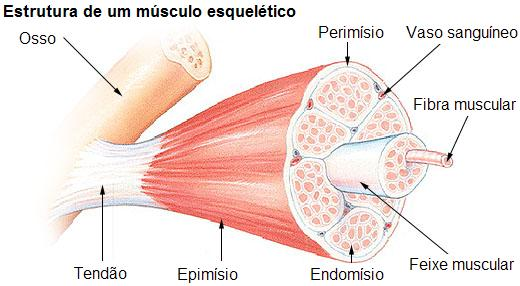 Structure of a skeletal muscle tissue and membranes.